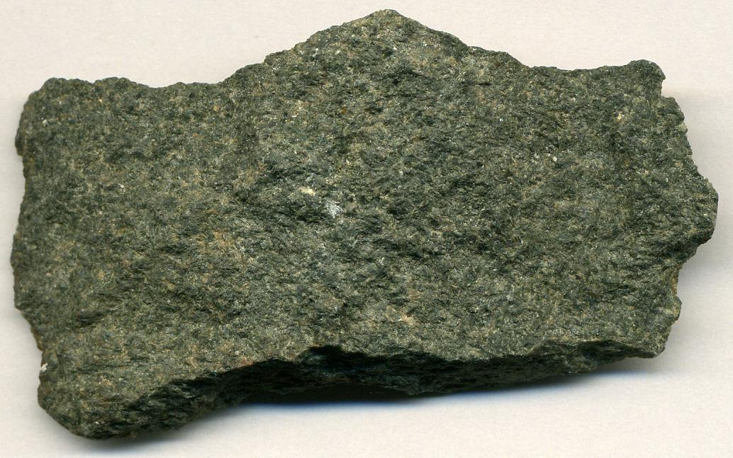 Hand specimen of greenstone (metamorphosed basaltic pillow lava) of the Mona Formation of Neoarchean age (~2.7 Ga) exposed at a road cut between Marquette and Negaunee in the Upper Peninsula of Michigan, USA.